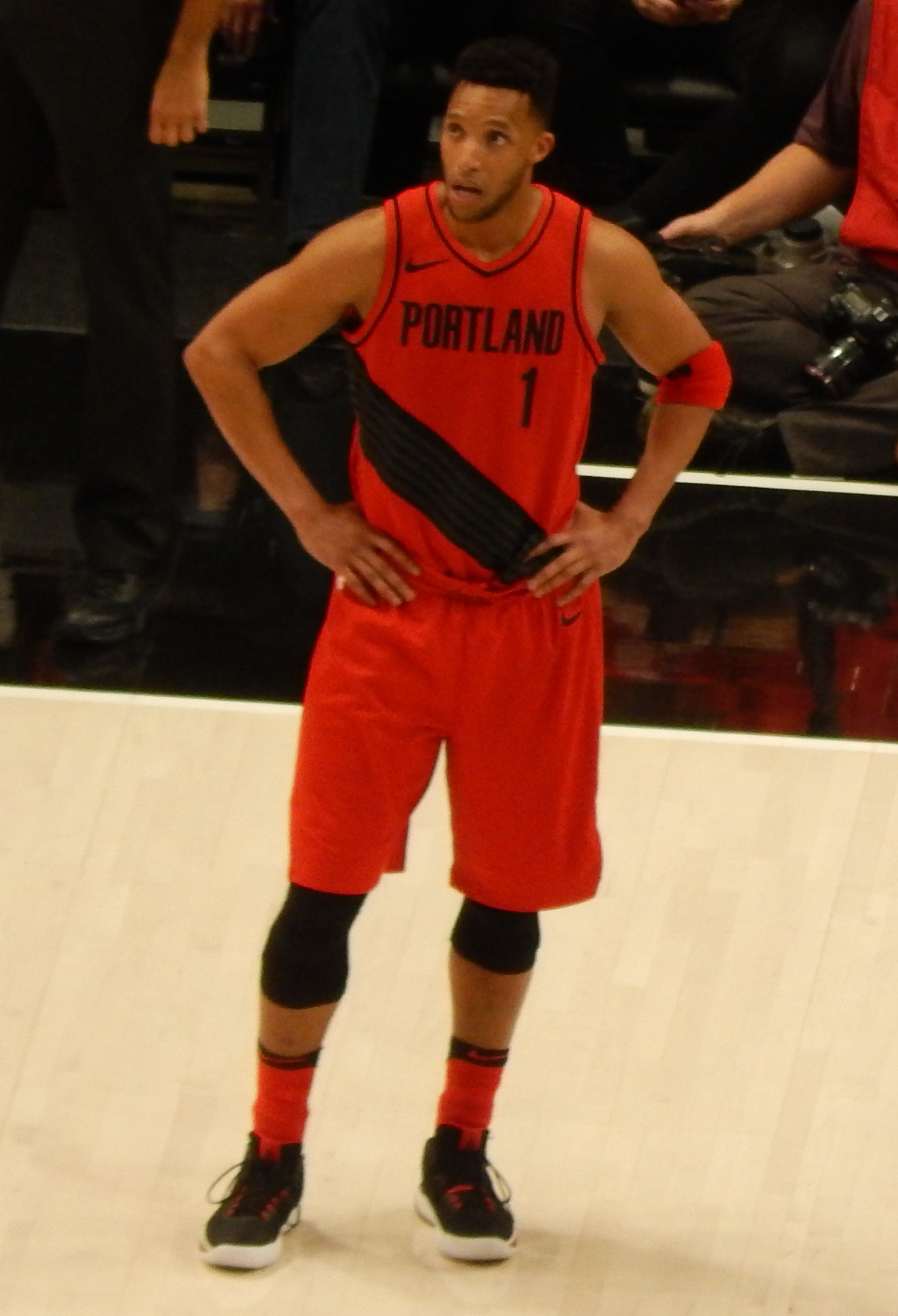 Evan Turner #1 of the Portland Trail Blazers against the Minnesota Timberwolves on March 1, 2018 at Moda Center in Portland, Oregon.